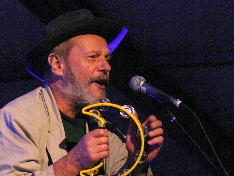 Klaus Renft, Leader of Klaus Renft Combo, Eppendorf/Saxony 2003.